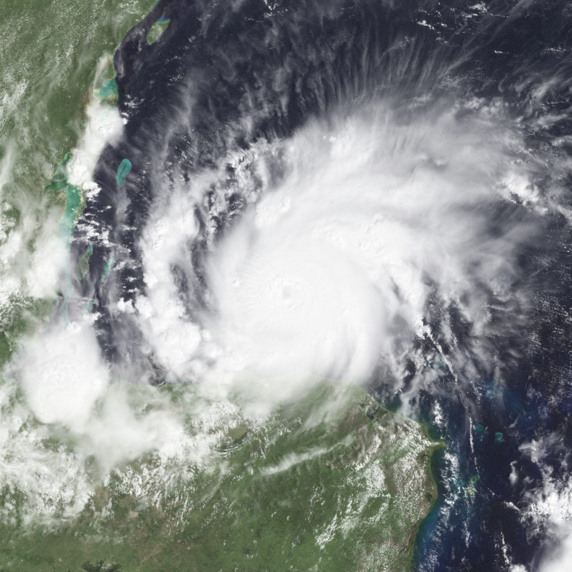 Hurricane Iris intensifying on October 8, 2001. Maximum sustained winds were near 140 mph (220 km/h) at this time.